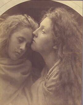 The Kiss of Peace, albumen print, 36.0 x 27.8 cm.